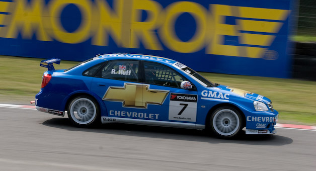 Robert Huff (Chevrolet) at the 2008 WTCC Brands Hatch race.